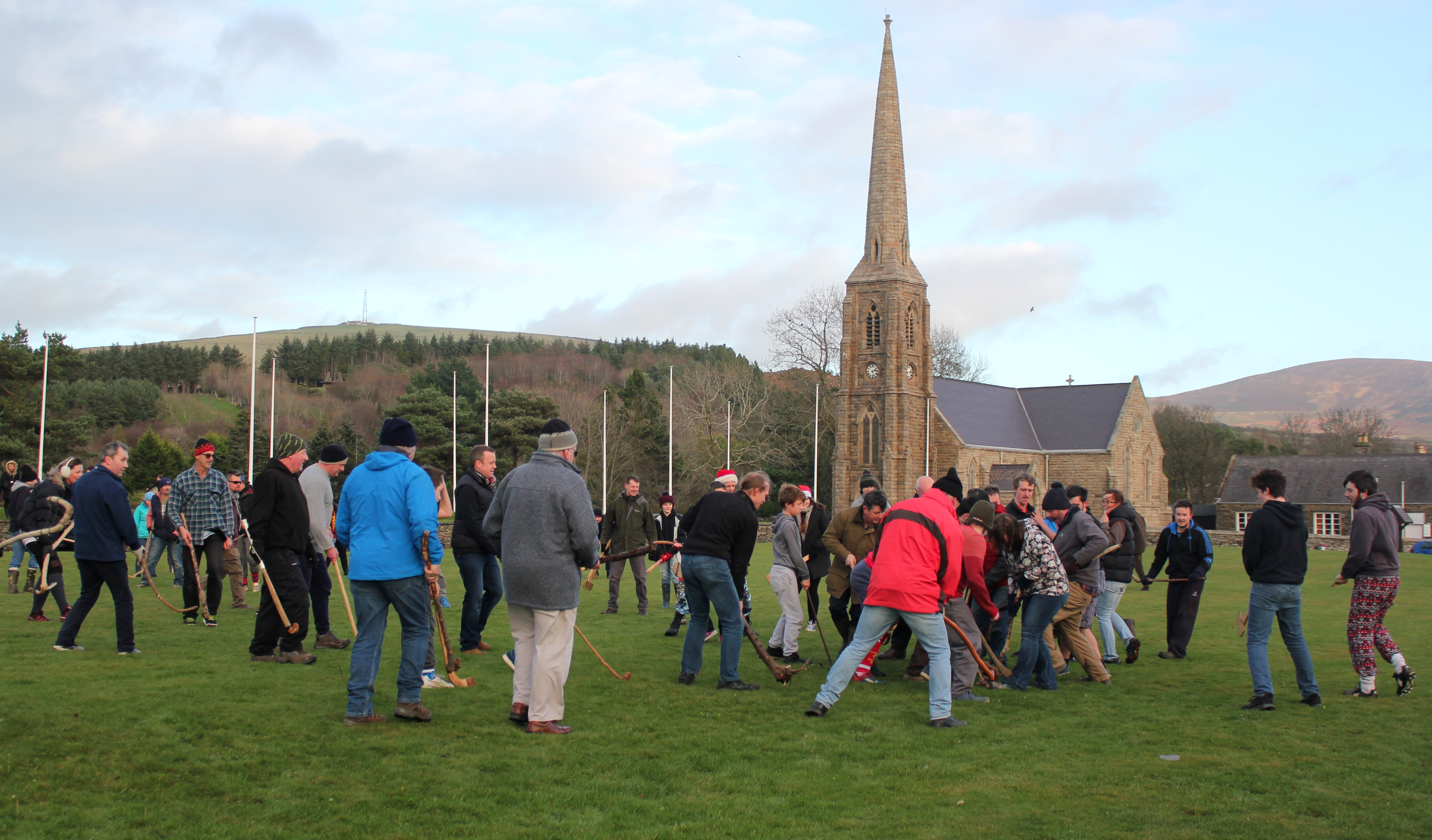 The 2016 Cammag match at St. John's